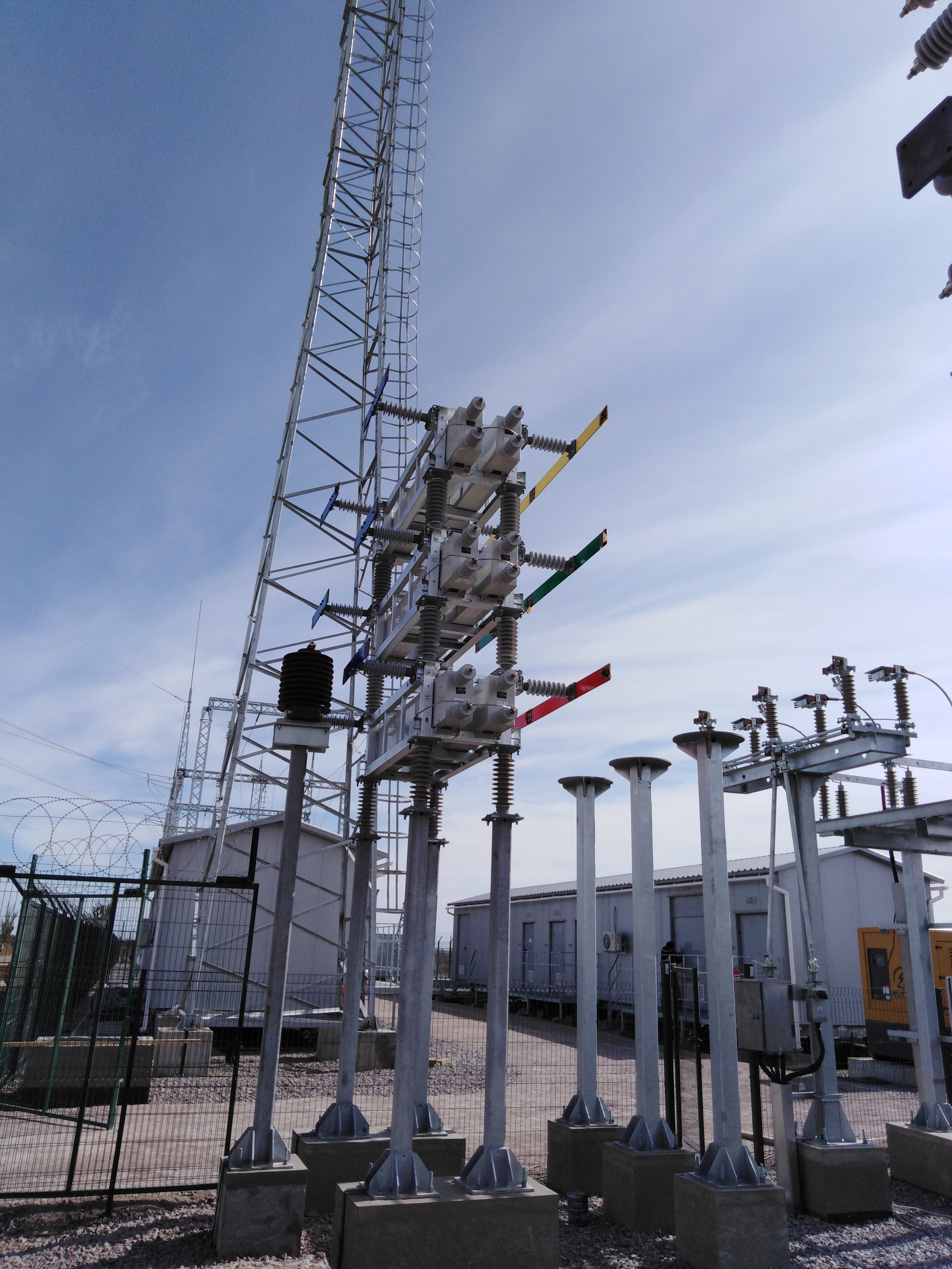 Ukraine. Zaporozhye region, Prymorsk Raion. Orlivska Wind Power Plant.